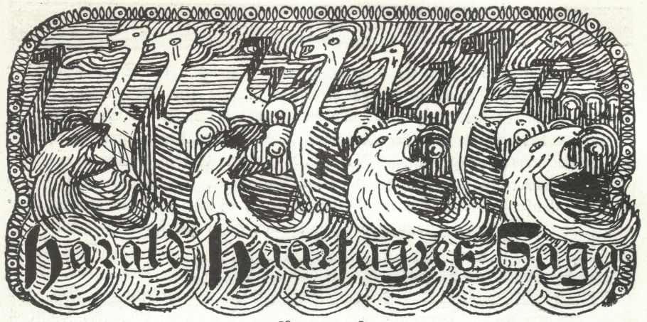 Gerhard Munthe: Illustration for Harald Hårfagres saga, Heimskringla 1899-edition. Tittelfrise.